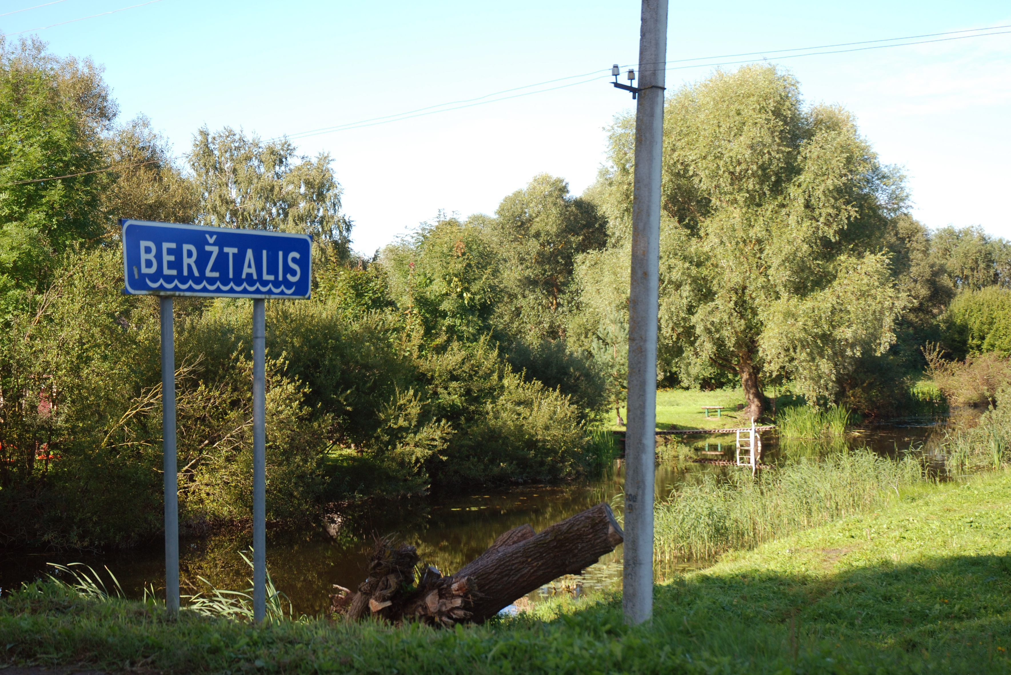 The river Beržtalis in Žeimelis, Pakruojis District